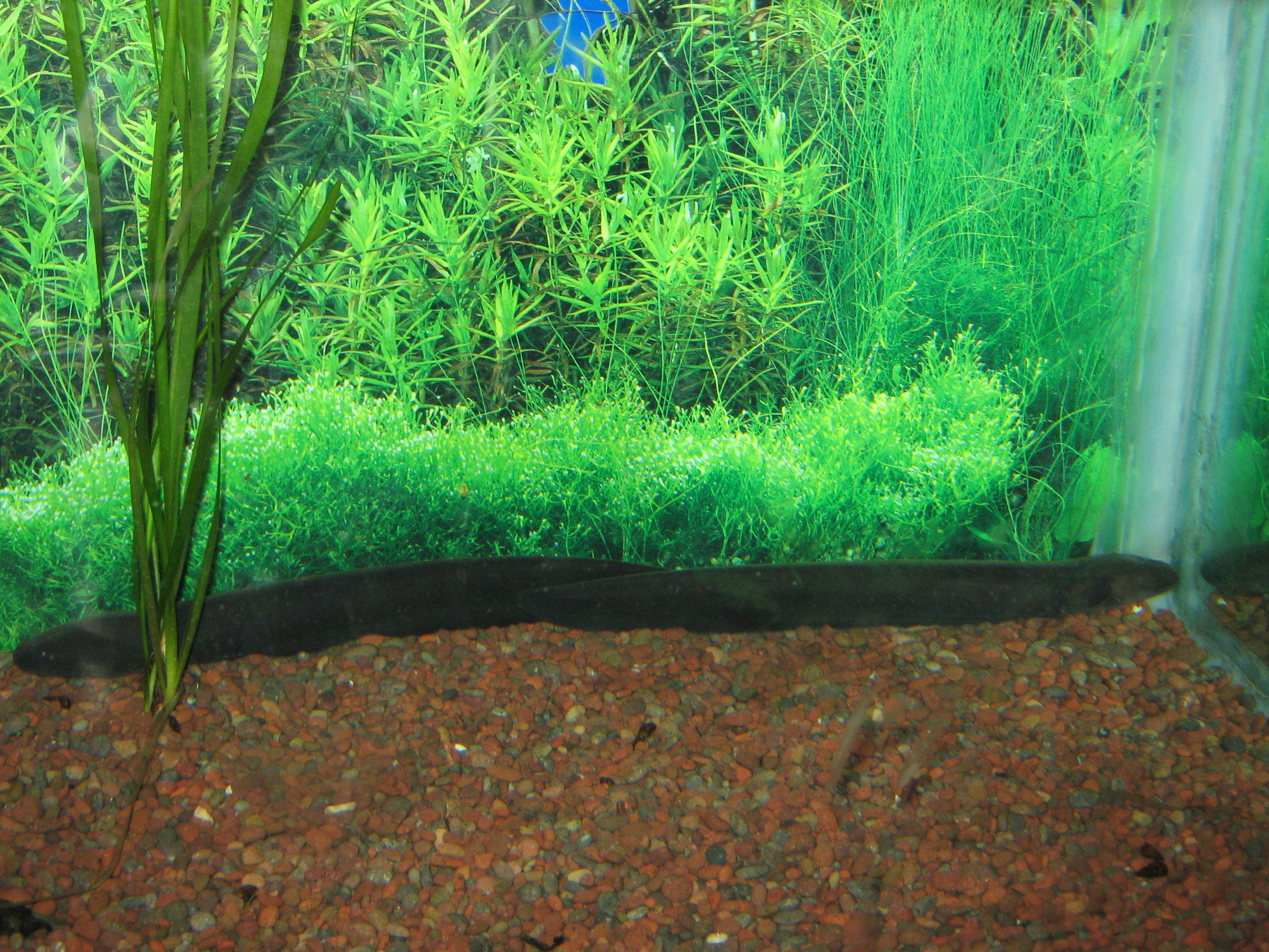 Two electric eels (Electrophorus electricus) at Huachipa Zoo in Lima, Peru.